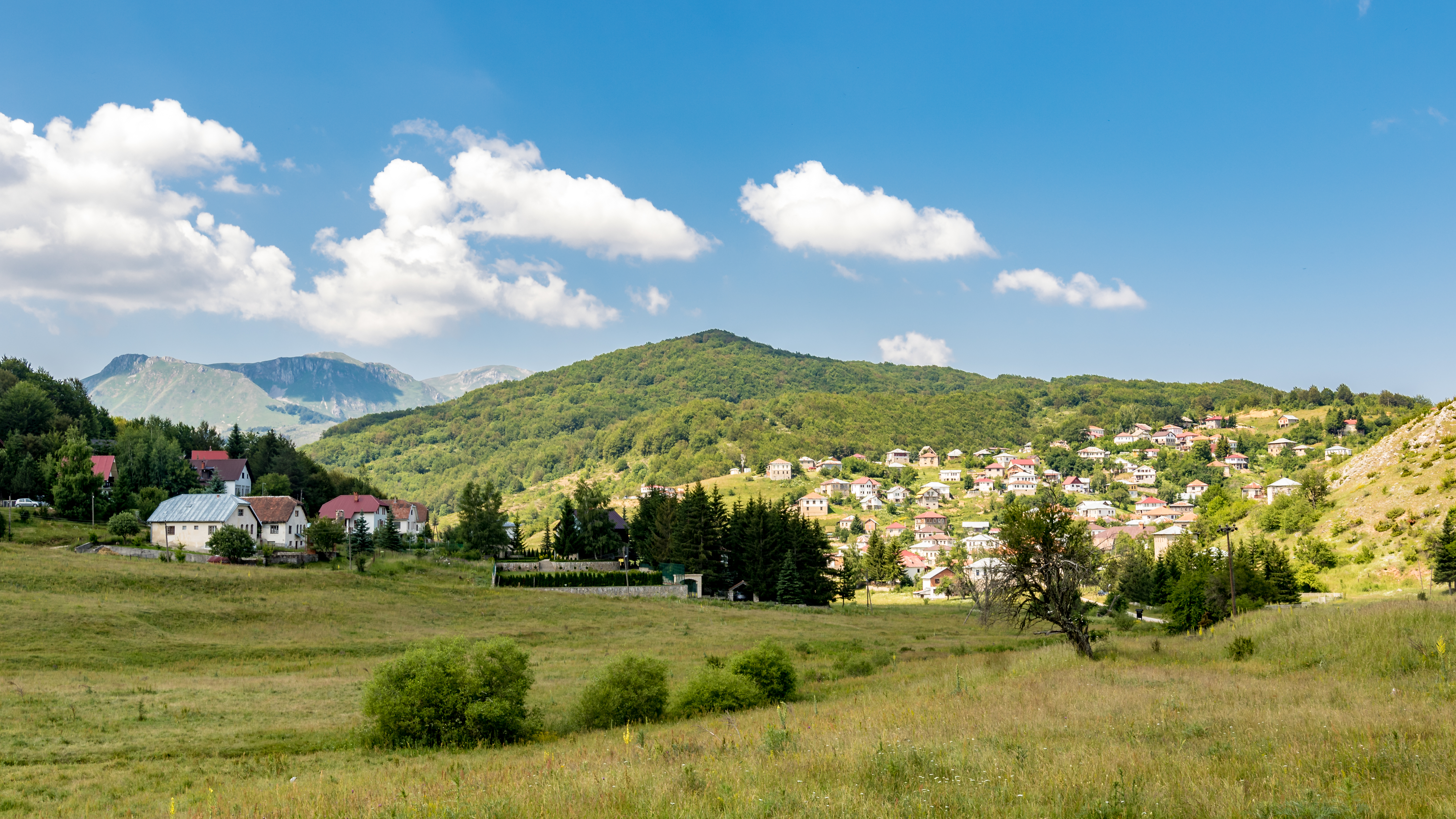 View of the village Lazaropole